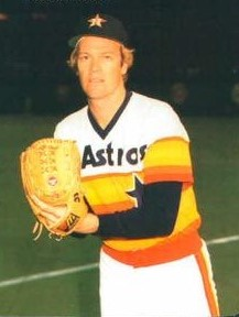 Image cropped from a baseball card of Mike Scott from the 1985 Mother's Cookies Houston Astros set.